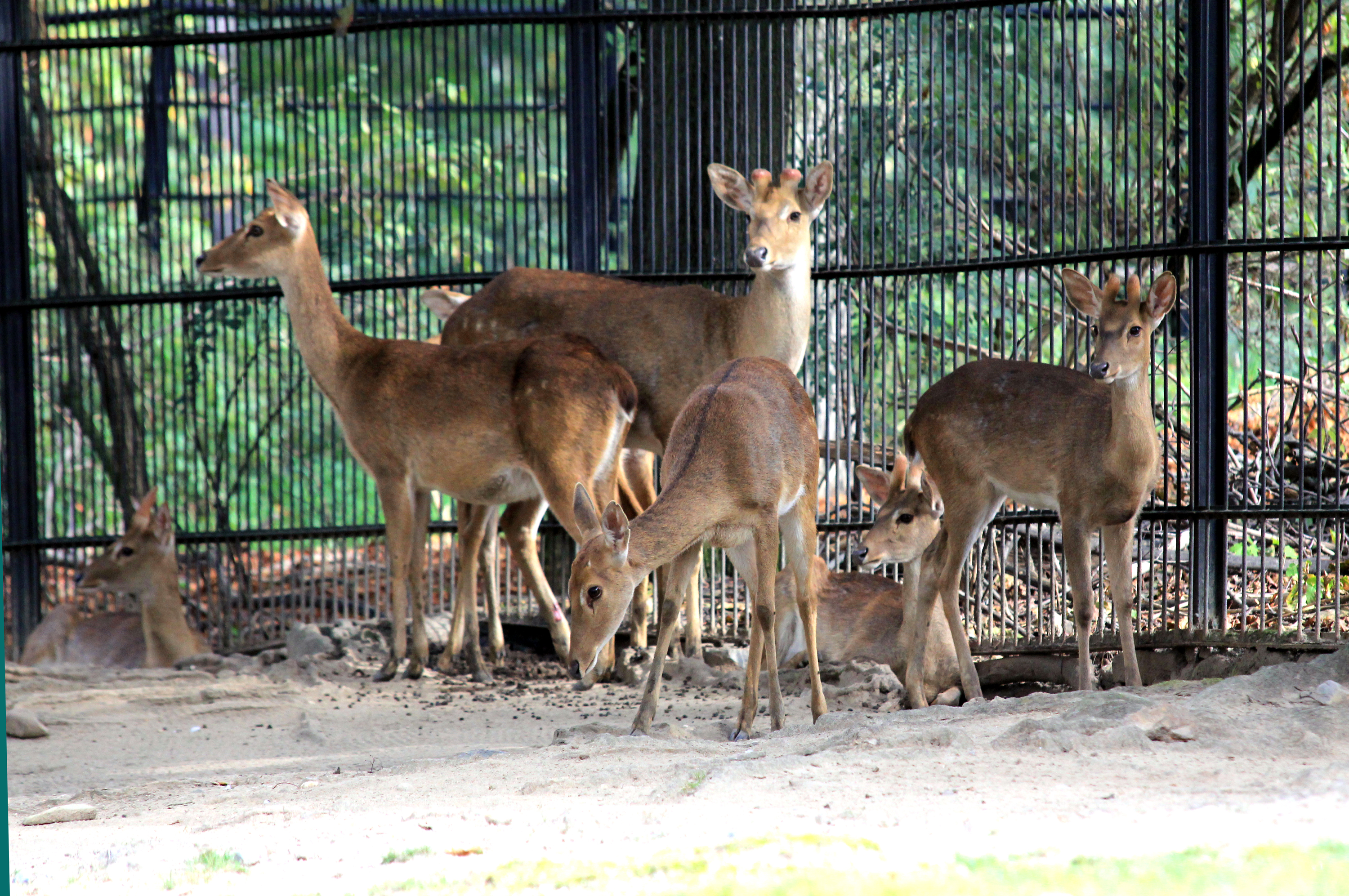 Eld's Deer (Cervus eldii) in Prague Zoo, Czech Republic